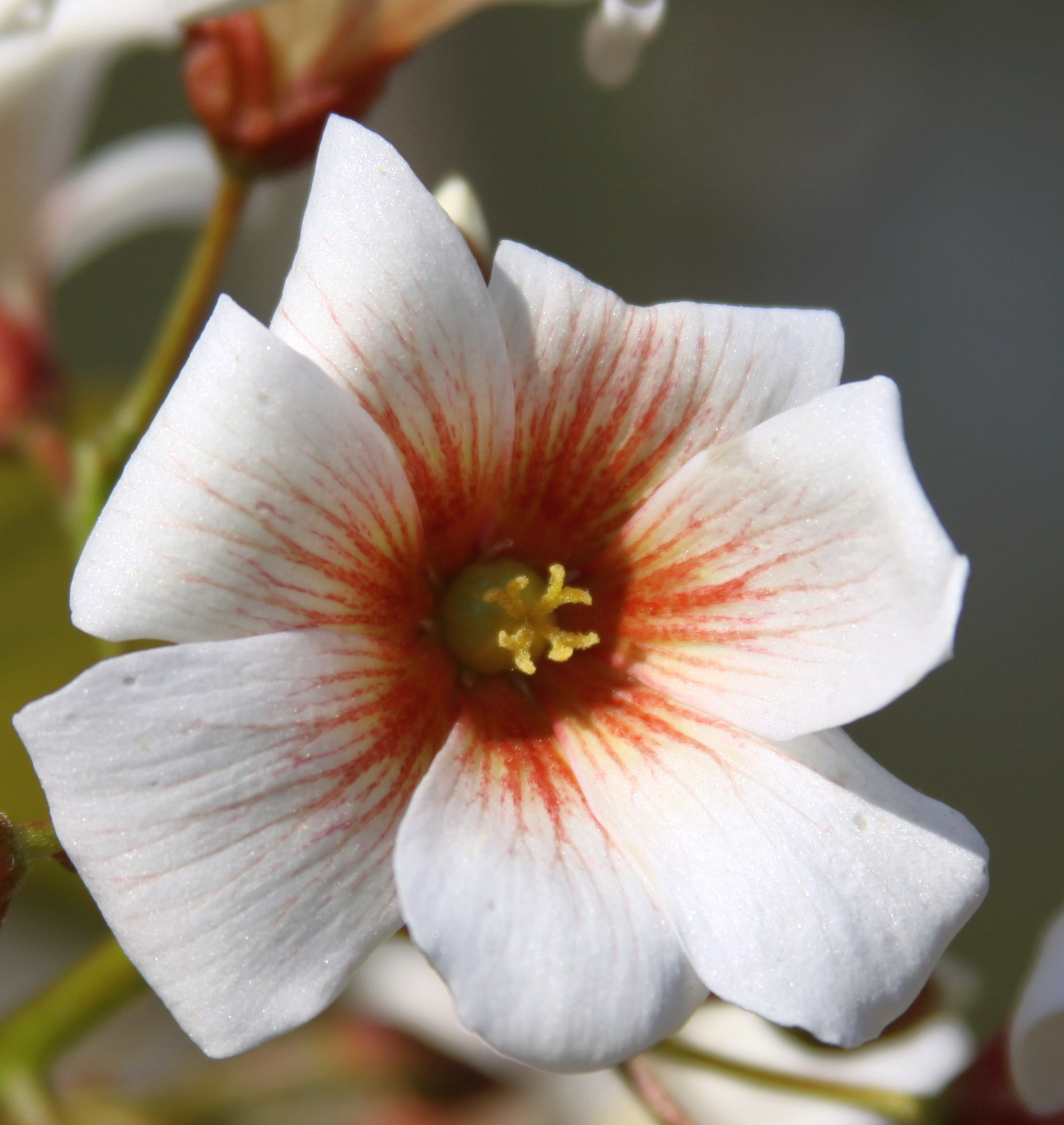 Tung Oil Tree (Vernicia fordii), Norfolk Botanical Garden